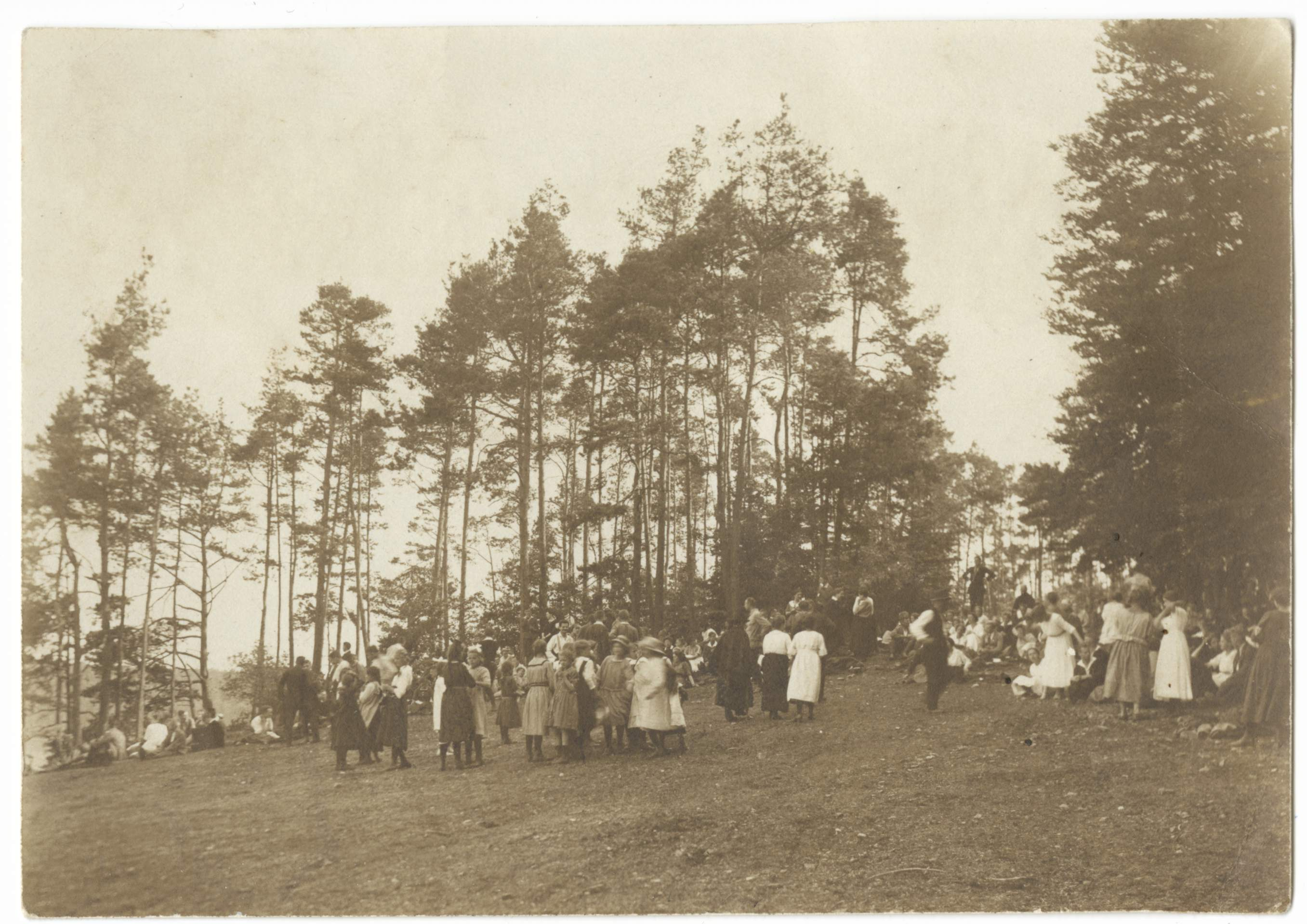 Youth Movement Conference in Germany 1920